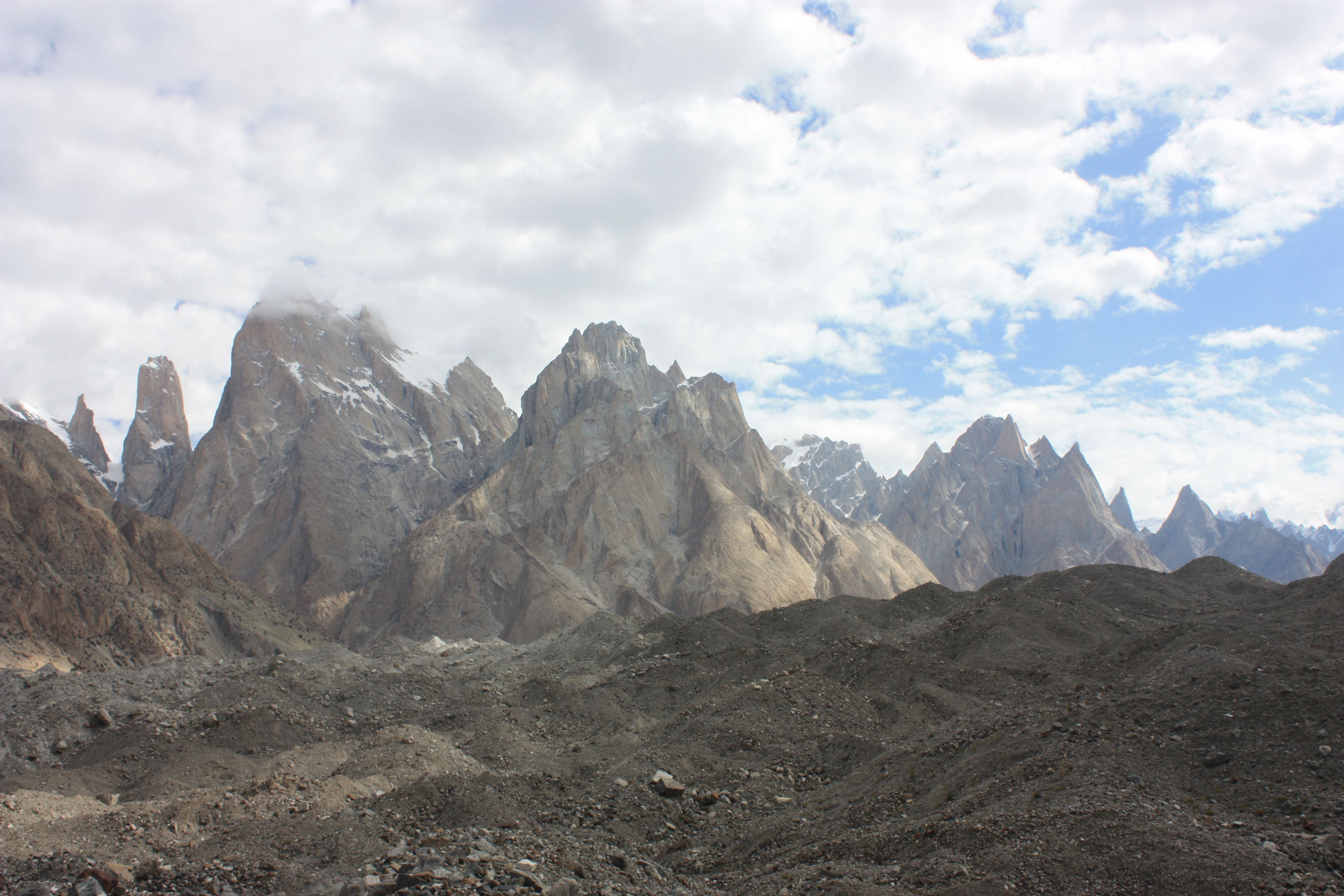 Nameless Tower, Trango Tower (with clouds on top), first cathedral (aka Trango Cathedral) and second cathedral (right) from Baltoro glacier